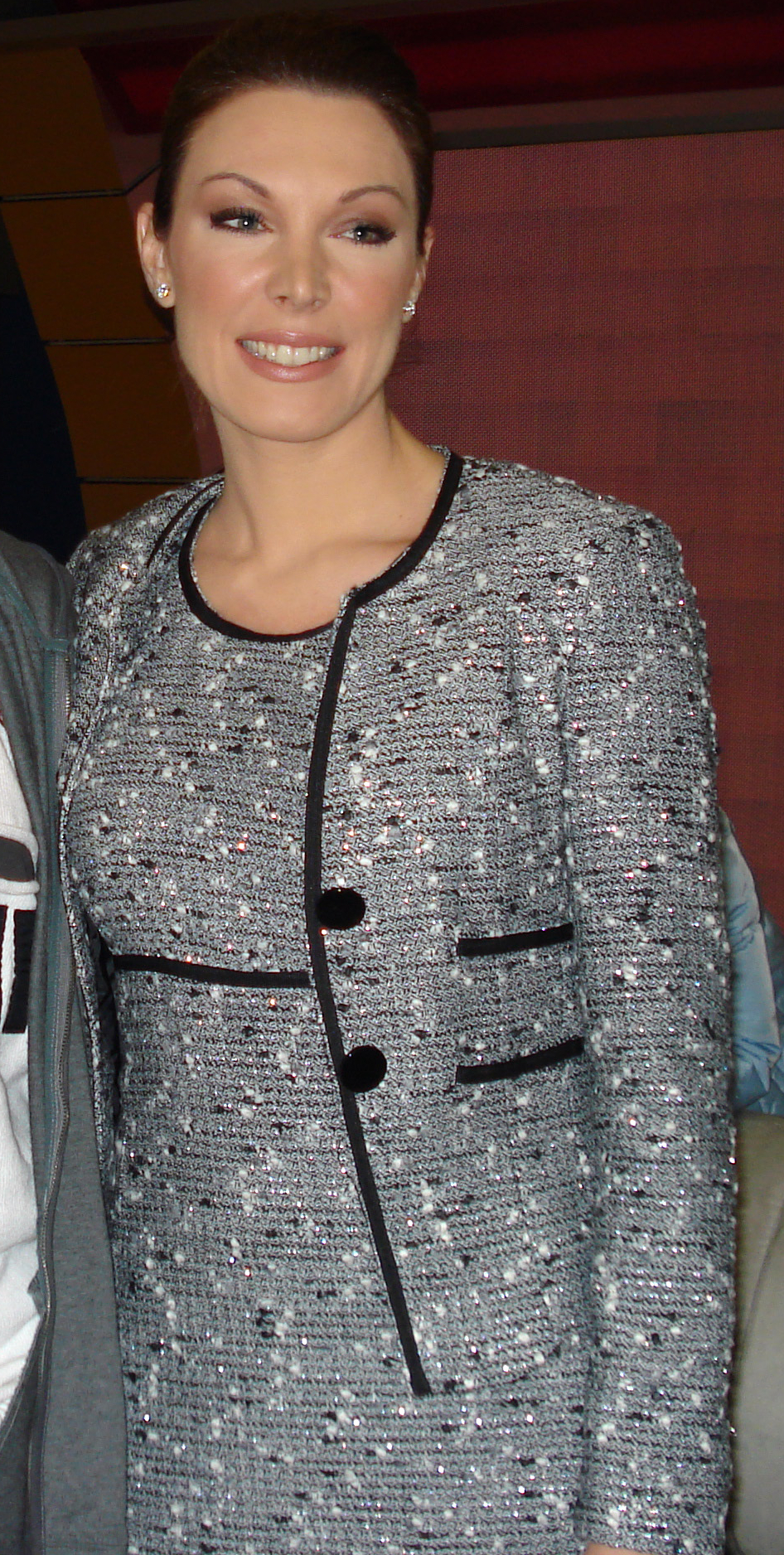 Tatiana Stefanidou, greek TV-woman